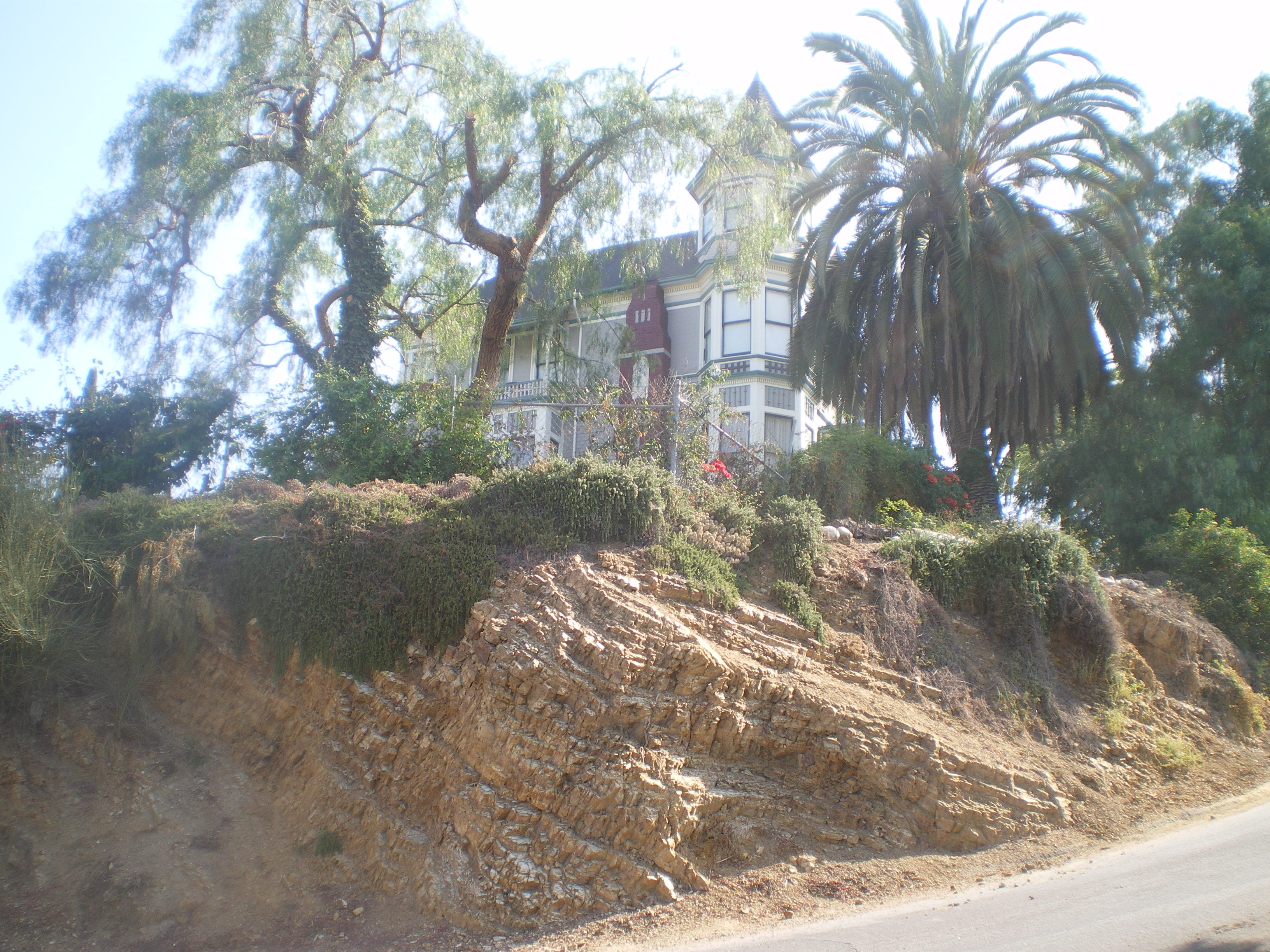 The Smith Estate — Victorian Queen Anne house in the Highland Park district, Northeast Los Angeles, Southern California. Taken from the base of El Mio Street. A Los Angeles Historic-Cultural Monument.